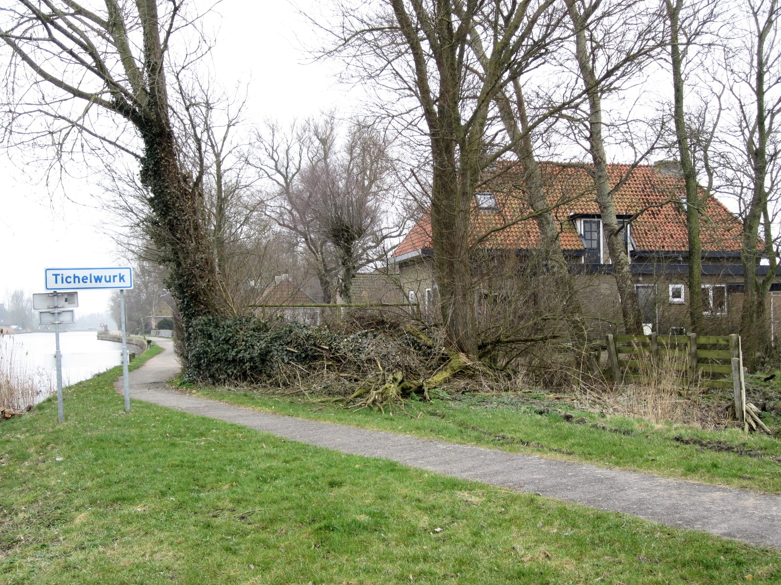 Tichelwurk. County Friesland, The Netherlands. North entrance with former school.